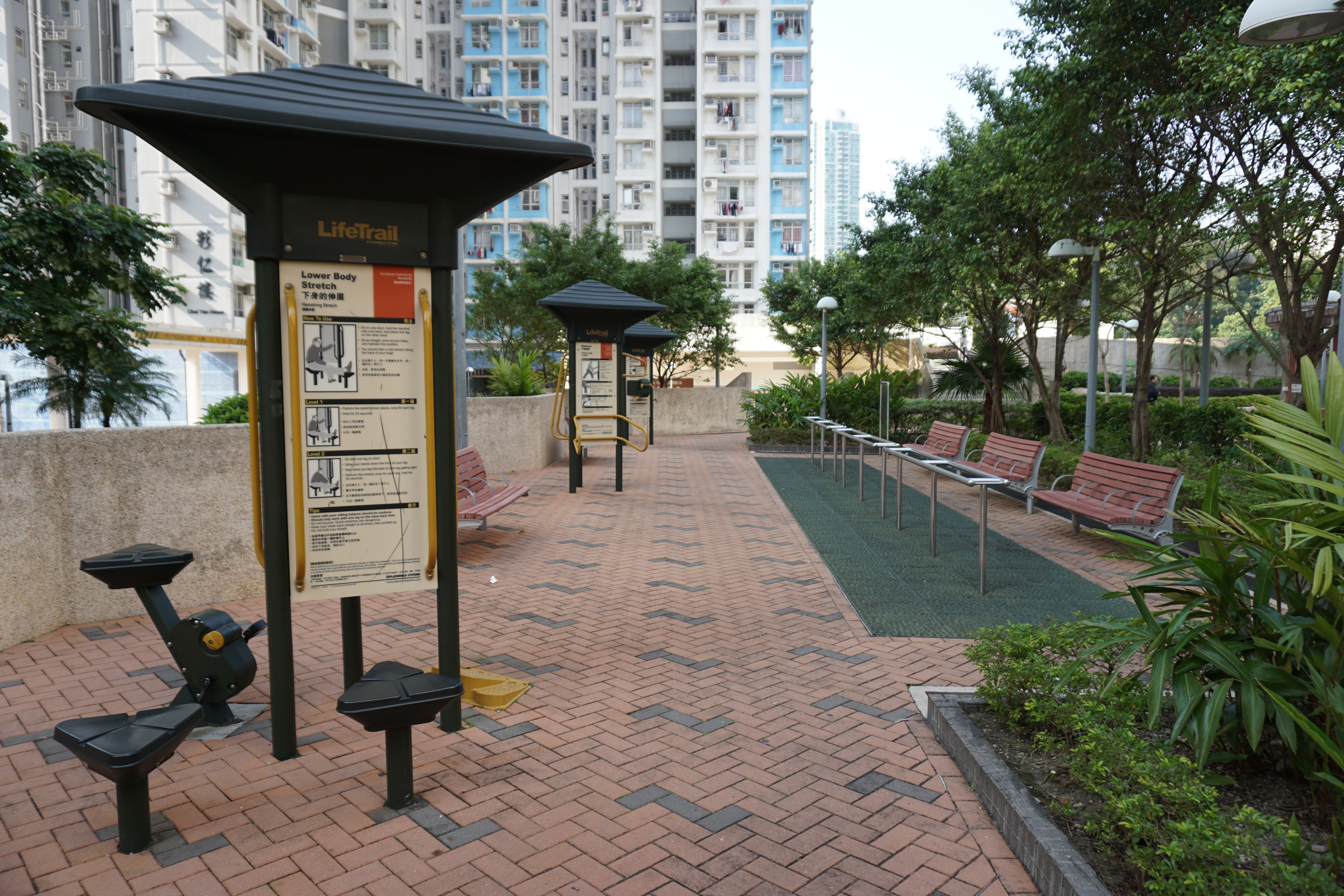 Choi Tak Estate in Kowloon Bay, Hong Kong.